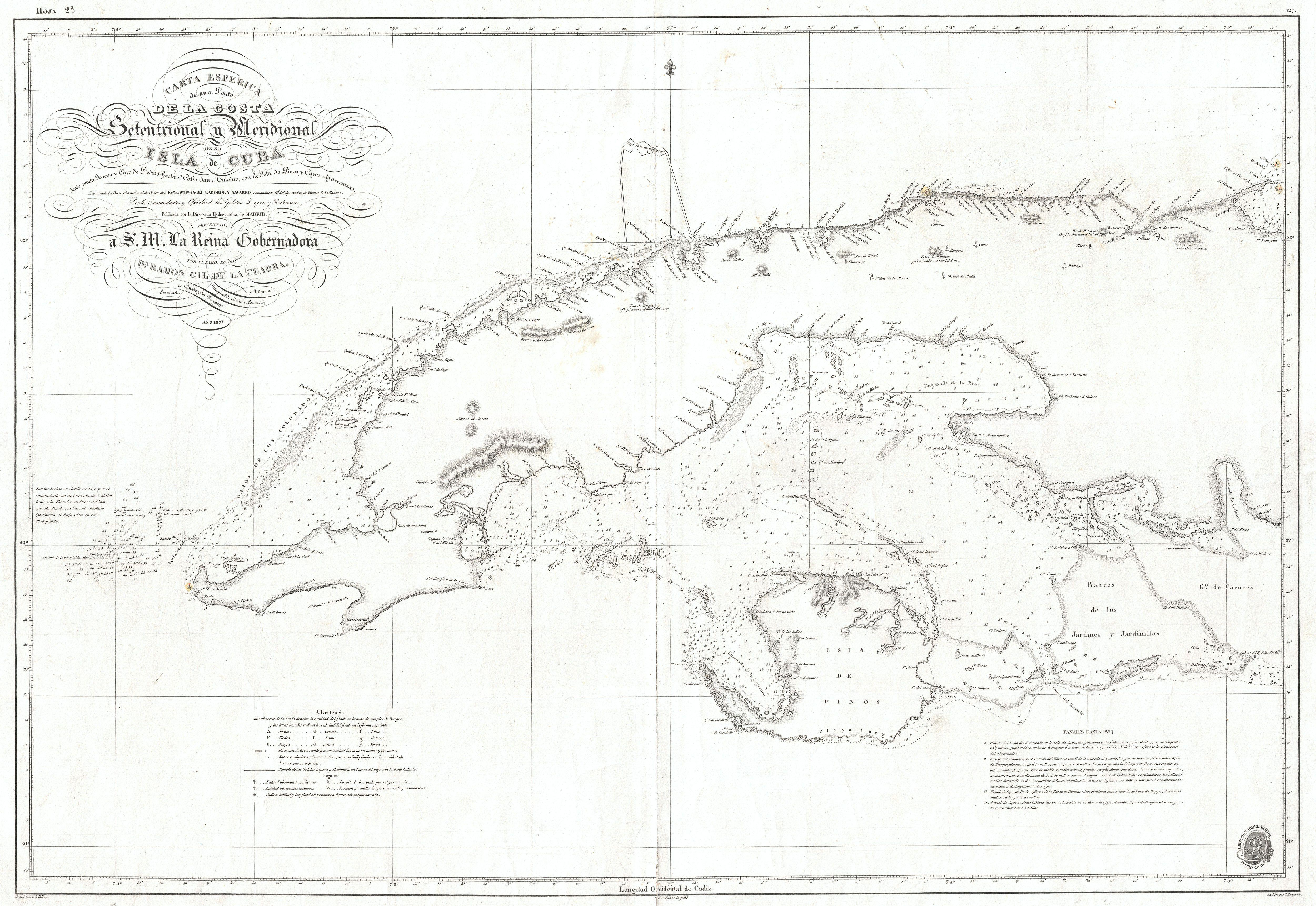 This is a dramatic and exceptionally rare 1854 nautical chart or map of the western part of Cuba by the Spanish mapping agency, Direccion Hidrografica . Covers the West India island from Cape San Antonio eastward as far as the Gulf of Cazones. Includes the Isla de Pinos and the city of Havana. Chart offers countless depth soundings as well as notes on the construction of the chart and navigation. Offers some inland detail, identifying a number of important mountains as well as the villages of Guanajayu, San Antonio de los Banos, San Antonio de Bedia, Manajau, Madruga, and countless others. While generally a black and white chart, lighthouses are noted with splashes of yellow and red color. A directional title cartouche appears in the upper left quadrant. The logo of the Direcction Hidrografica appears in the lower right quadrant. This map was prepared by a party under the command of the Spanish marine, Angel Laborde y Navarro . It was ordered by Don Ramon Gil de la Cuadra, head of the Direccion Hidrografica. Published in 1837 and updated to 1854.